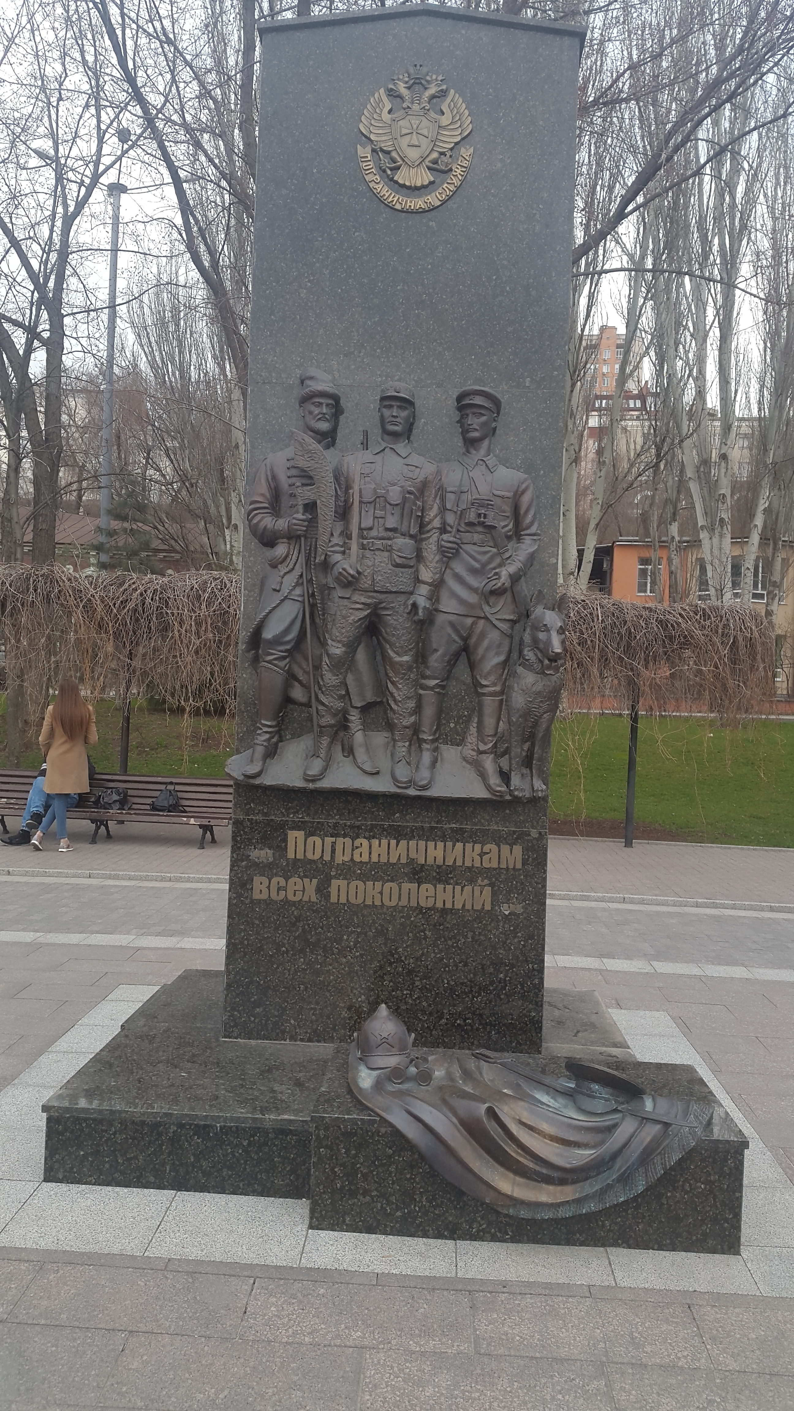 Monument of borderguards. Riverside Rostov-on-Don.